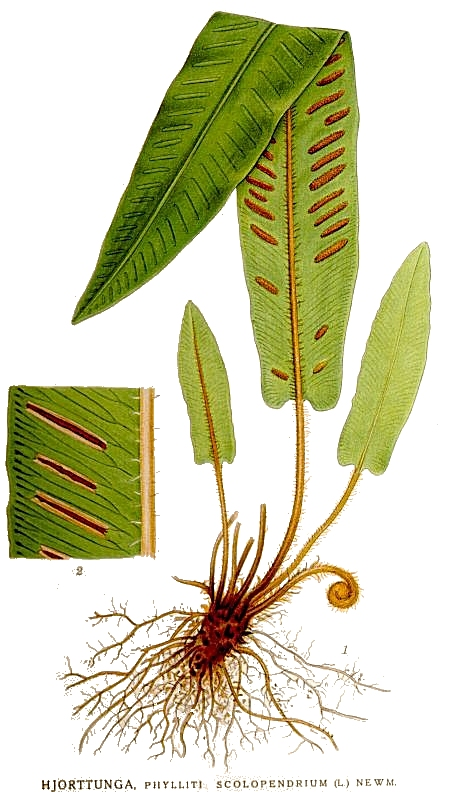 Asplenium scolopendrium L. Original Description Hjorttunga, Phyllitis scolopendrium (L.) Newm.